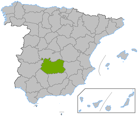 Location of the province of Ciudad Real, in Spain. Basado en: ProvPont.jpg Source: Designed by Satesclop. Original picture, designed by Sobreira.